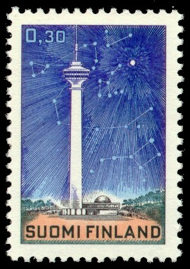 Postage stamp depicting the Näsinneula tower in Tampere